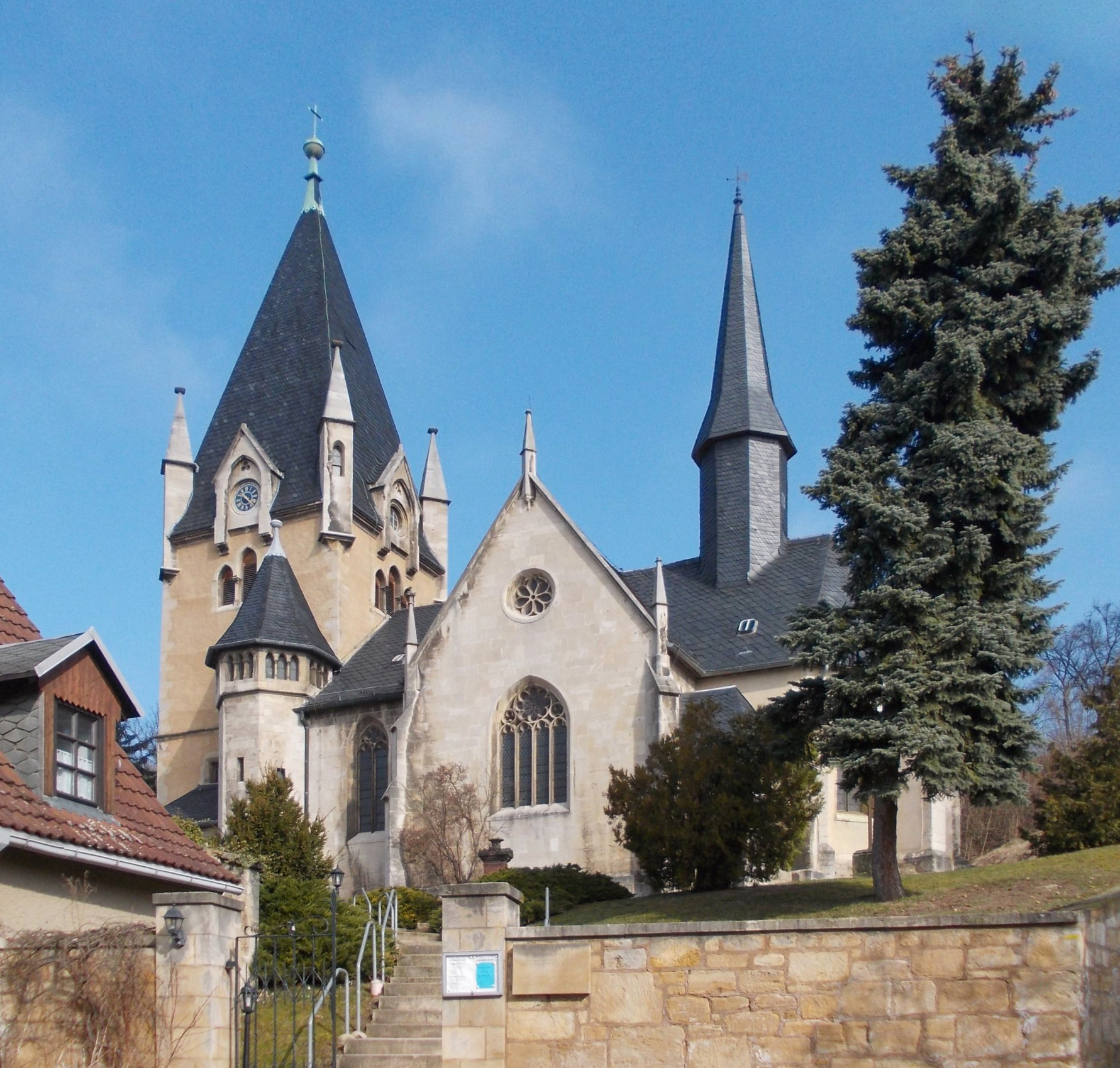 St. Elisabeth Church in Rossbach (Naumburg, district of Burgenlandkreis, Saxony-Anhalt)